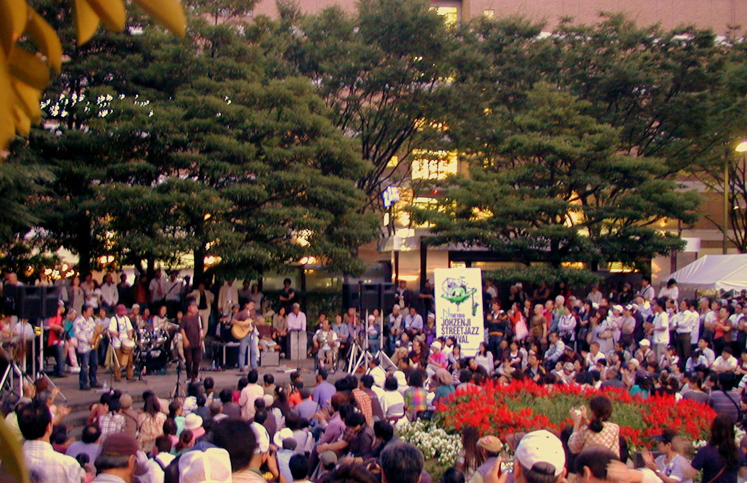 "Jozenji Streetjazz Festival in SENDAI". Kotodai-Koen Park